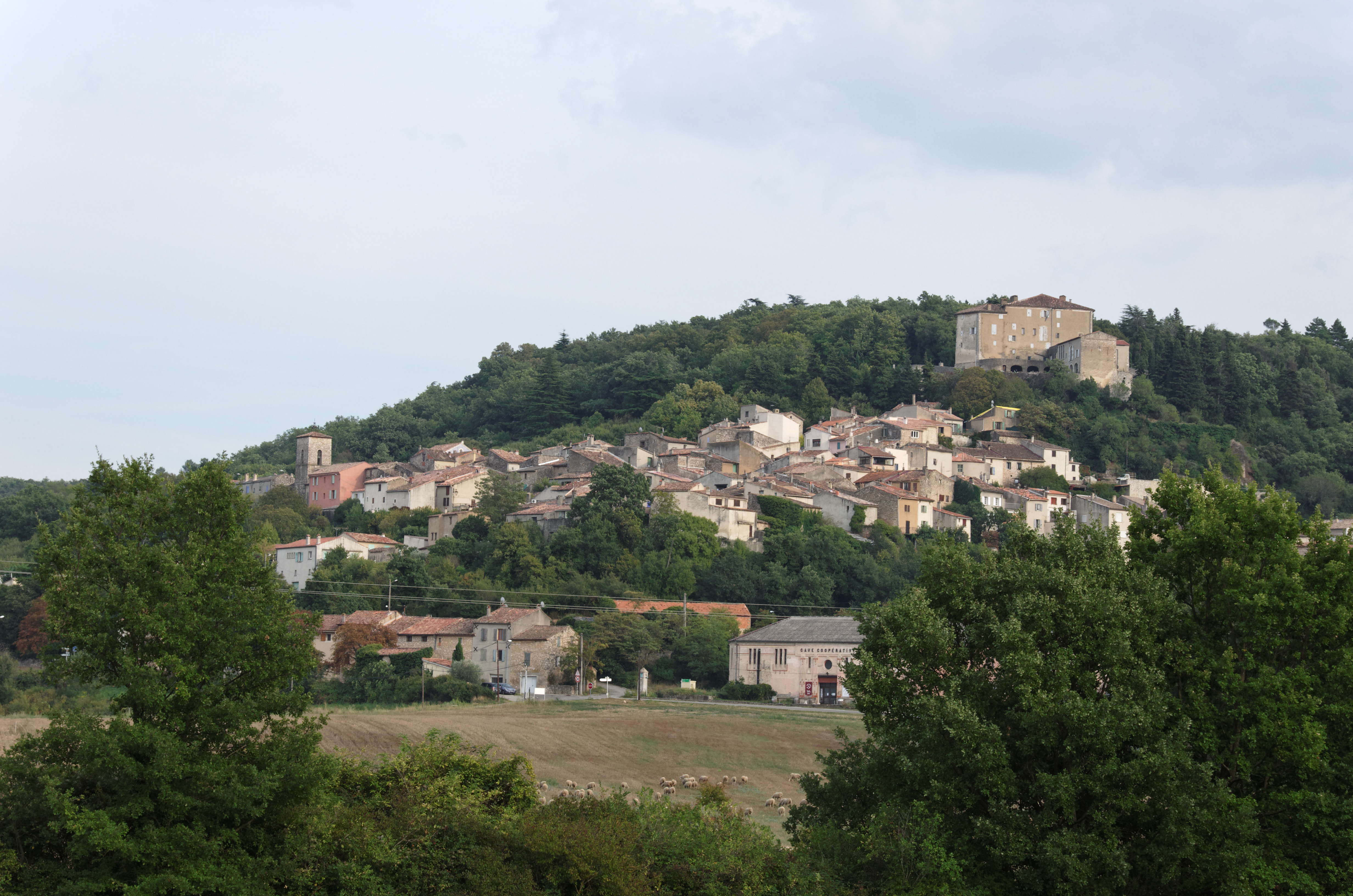 The village of Esparron, Var (83), France